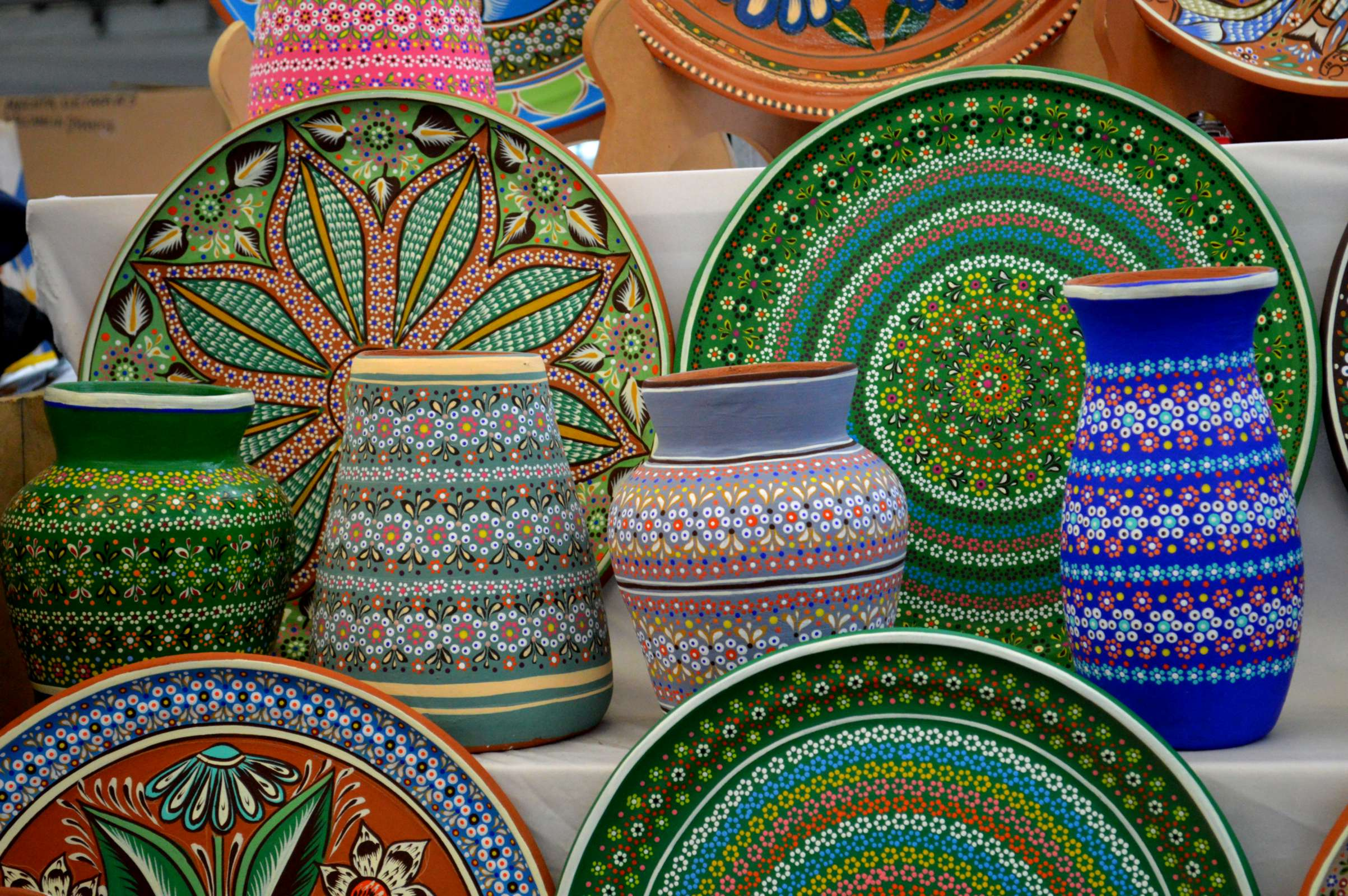 Pottery for sale at the Tianguis de Domingo de Ramos in Uruapan, Michoacan, Mexico